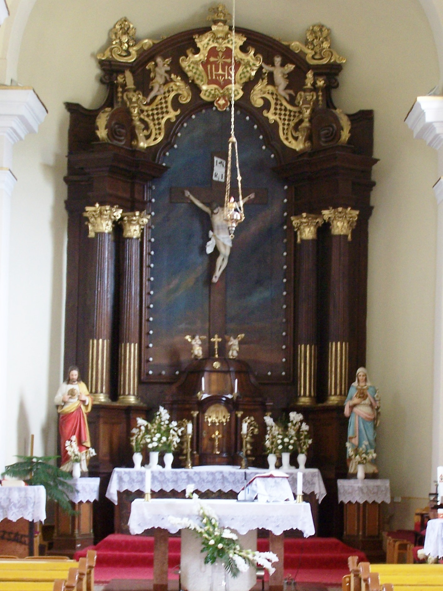 Main altar of Szurdokpüspöki church